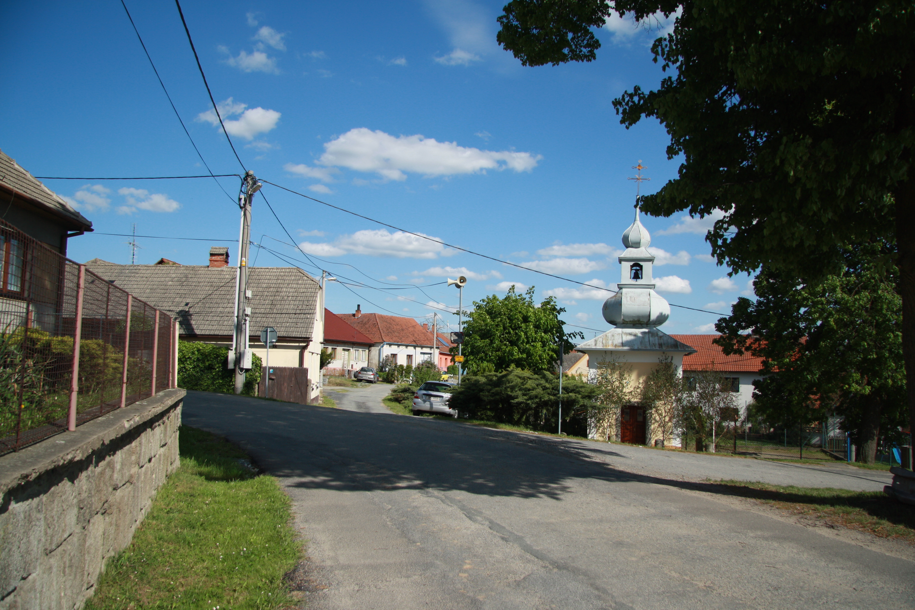 Center of Studnice, Třebíč District.